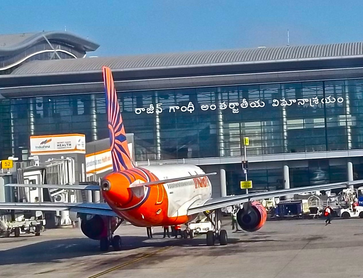 Rajiv Gandhi International Airport Shamsabad Cropped from Commons File:Flights_in_Hyderabad_Airport2.JPG Author:Subhashish Panigrahi